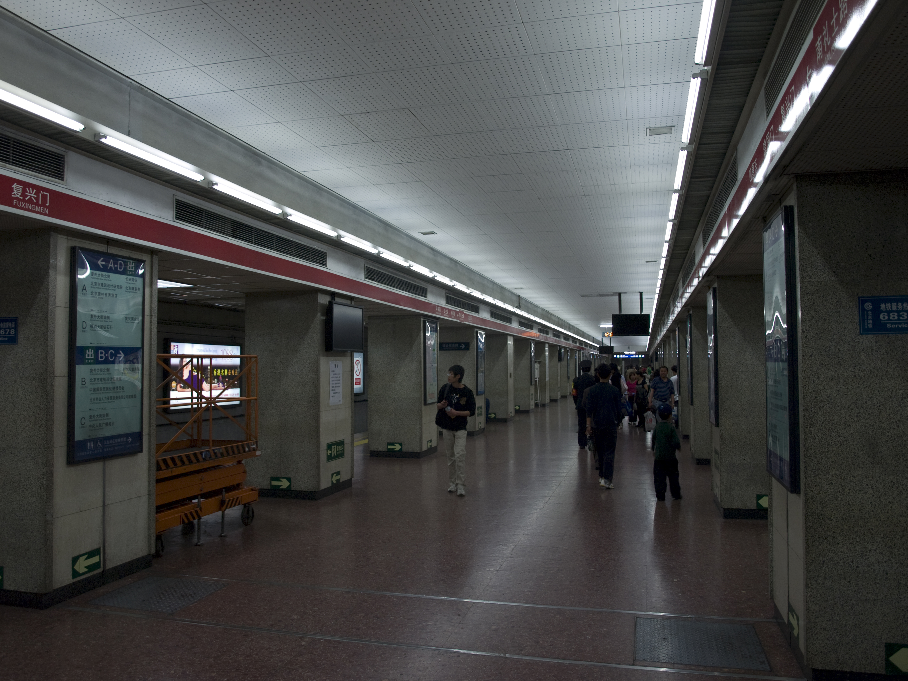 Nanlishilu station, Beijing Subway